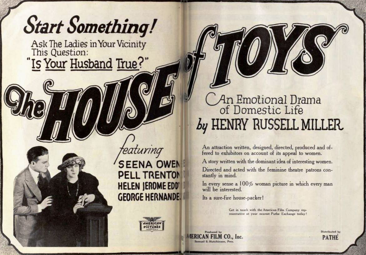 Advertisement for the American drama film The House of Toys (1920) with Seena Owen and Pell Trenton, on pages 16 and 17 of the June 26, 1920 Exhibitors Herald.